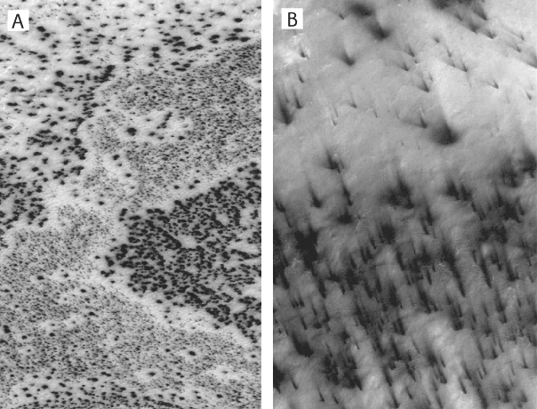 NASA photographs of sand geysers on Mars Dark spots (left) and 'fans' appear to scribble dusty hieroglyphics on top of the Martian south polar cap in two high-resolution Mars Global Surveyor, Mars Orbiter Camera images taken in southern spring. Each image is about 3-kilometers wide (2-miles).